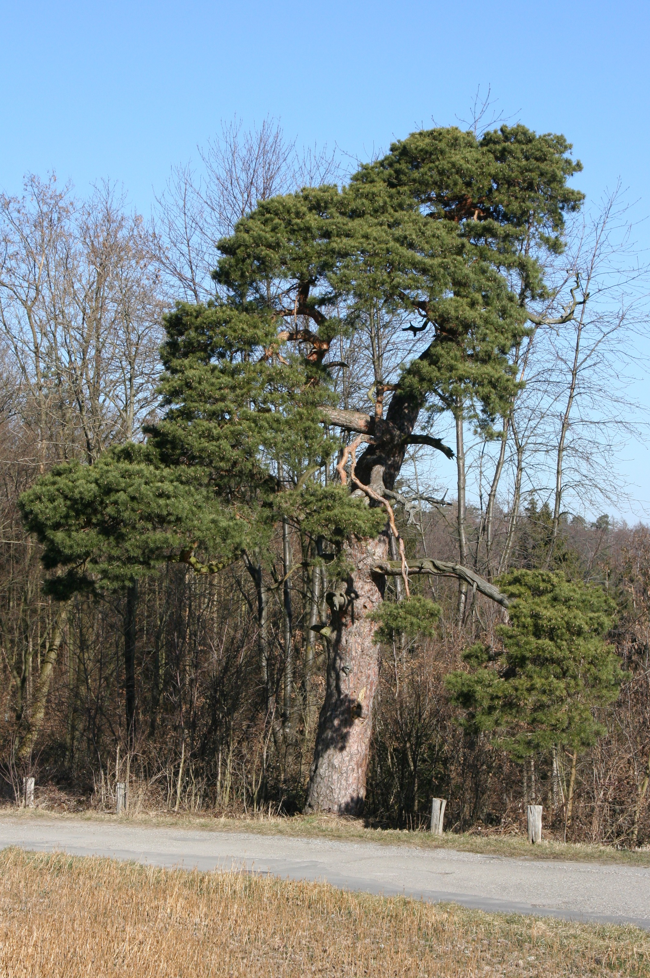 The natural monument Zigeunerfohrle in Obersulm. Felled in 2017 because it was mostly dead and a danger to the public.